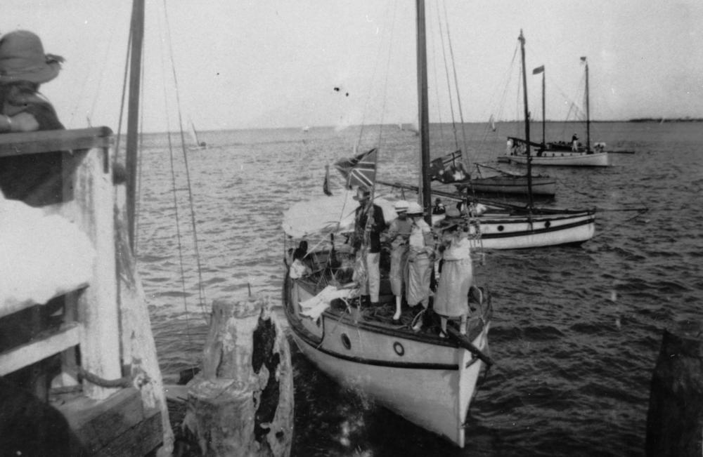 Opening the Sandgate Sailing Club in 1922. Yachts decorated with flags moored off the jetty at Sandgate. The front vessel is the Roberta and has a sun canopy on the aft deck and flags flying from the mainstay. Three women on the bow are dressed in 1920s fashionable dresses and hats. The boat was built by Albert Drew.